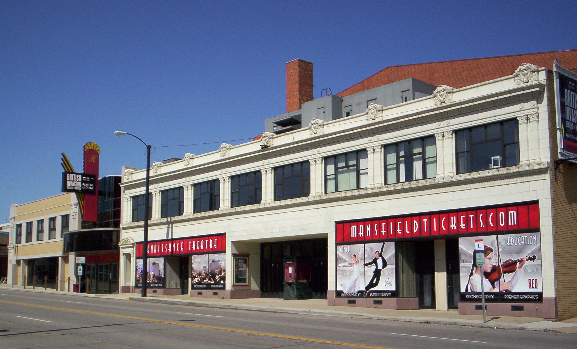 The Renaissance Theatre, located at 138 Park Avenue West in downtown Mansfield, Ohio, United States is an historic landmark. It was listed on the National Register of Historic Places listings in Richland County, Ohio on May 31, 1983.This is the new and current look of The Renaissance after the 2008 expansion and 2011 makeover. The Madison Theatre marquee, that had been placed on the building in 1984, was removed in June 2010.